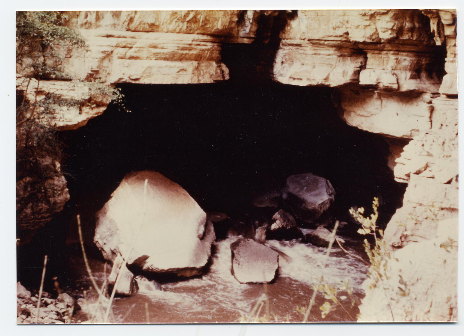 Holuca Resurgence Sof Omar Cave, Ethopia 1972 British Speleological Expedition to Ethopia